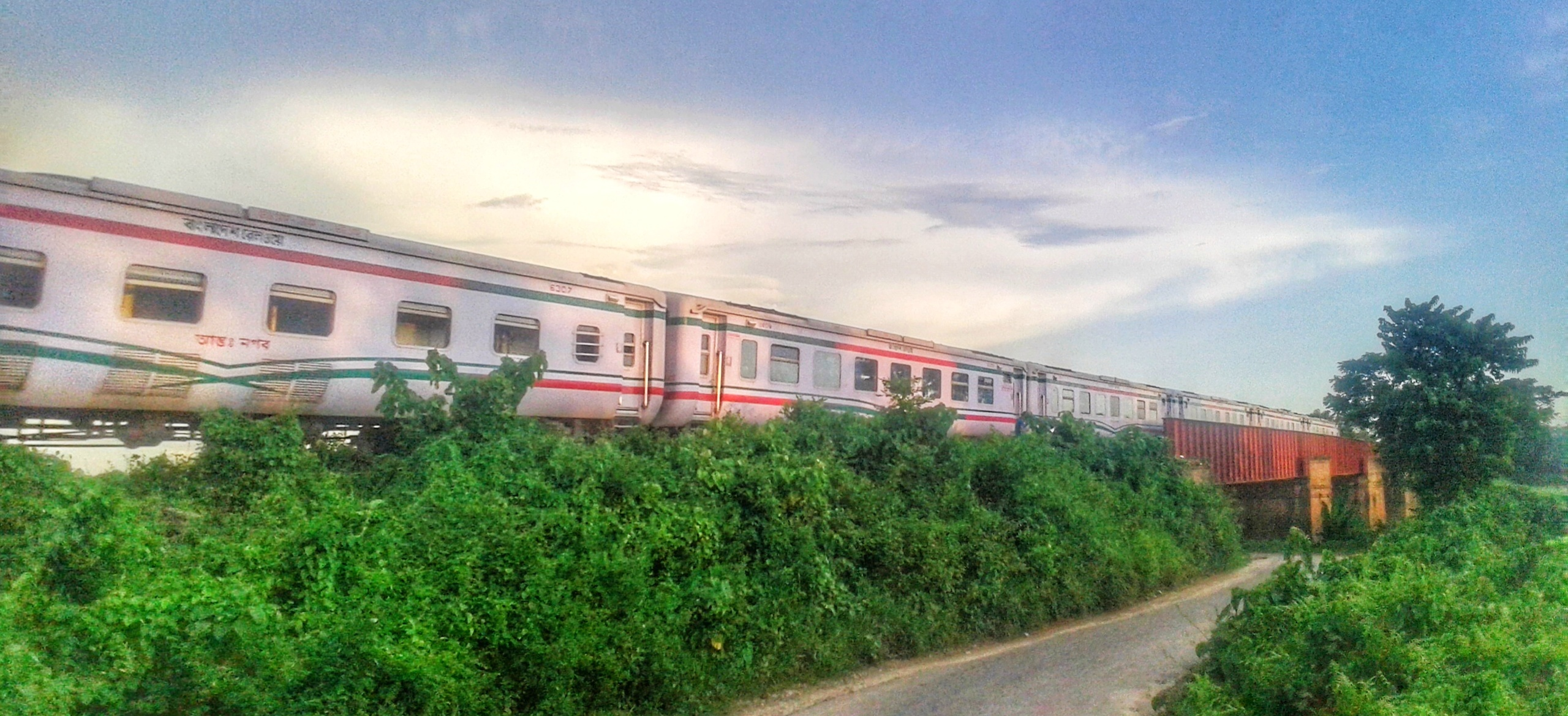 A Bangladeshi Inter City train is crossing Comilla Gumti River railway bridge very fastly